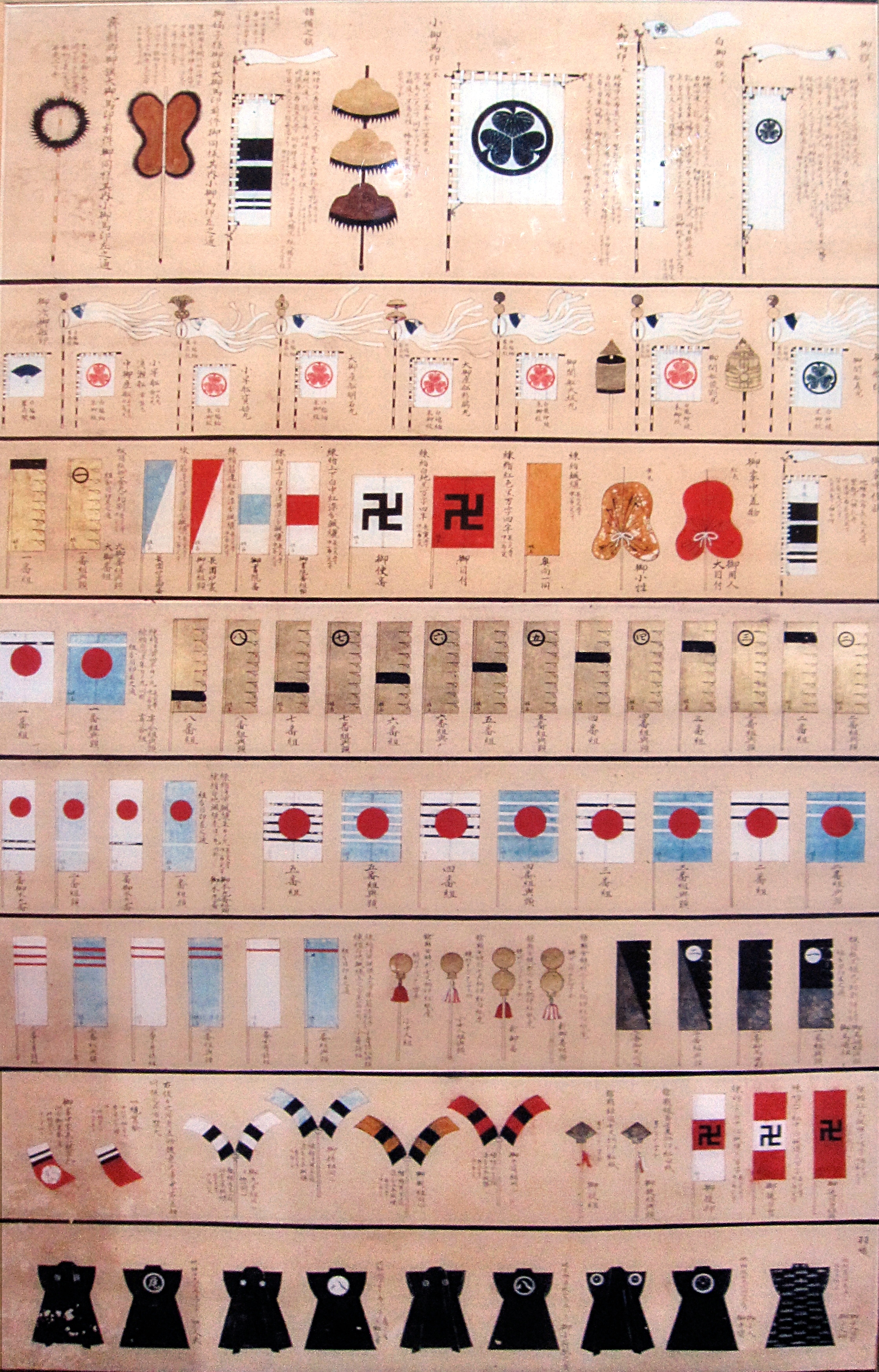 Banners of the Owari branch of the Tokugawa clan. Historic depiction from 18th-19th century.